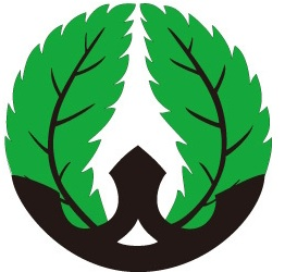 Hayama Kanagawa chapter